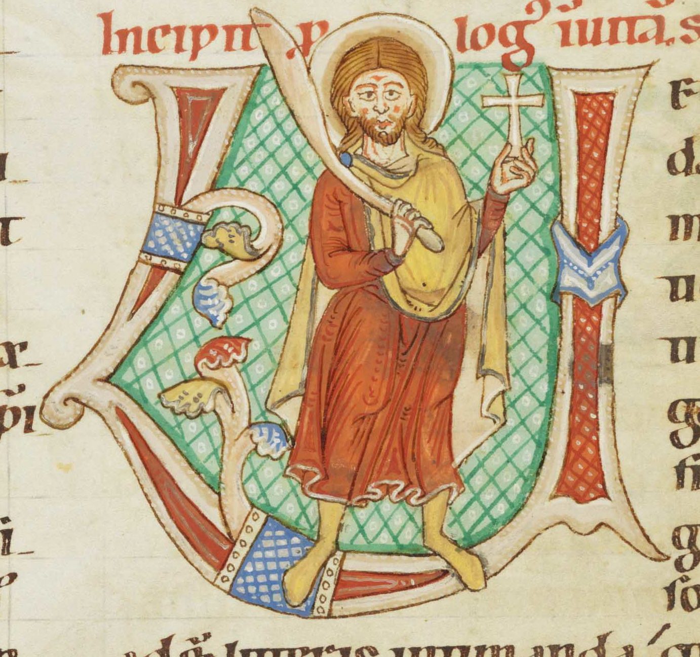 Illumination from the Passionary of Weissenau (Weißenauer Passionale); Fondation Bodmer, Coligny, Switzerland; Cod. Bodmer 127, fol. 66v